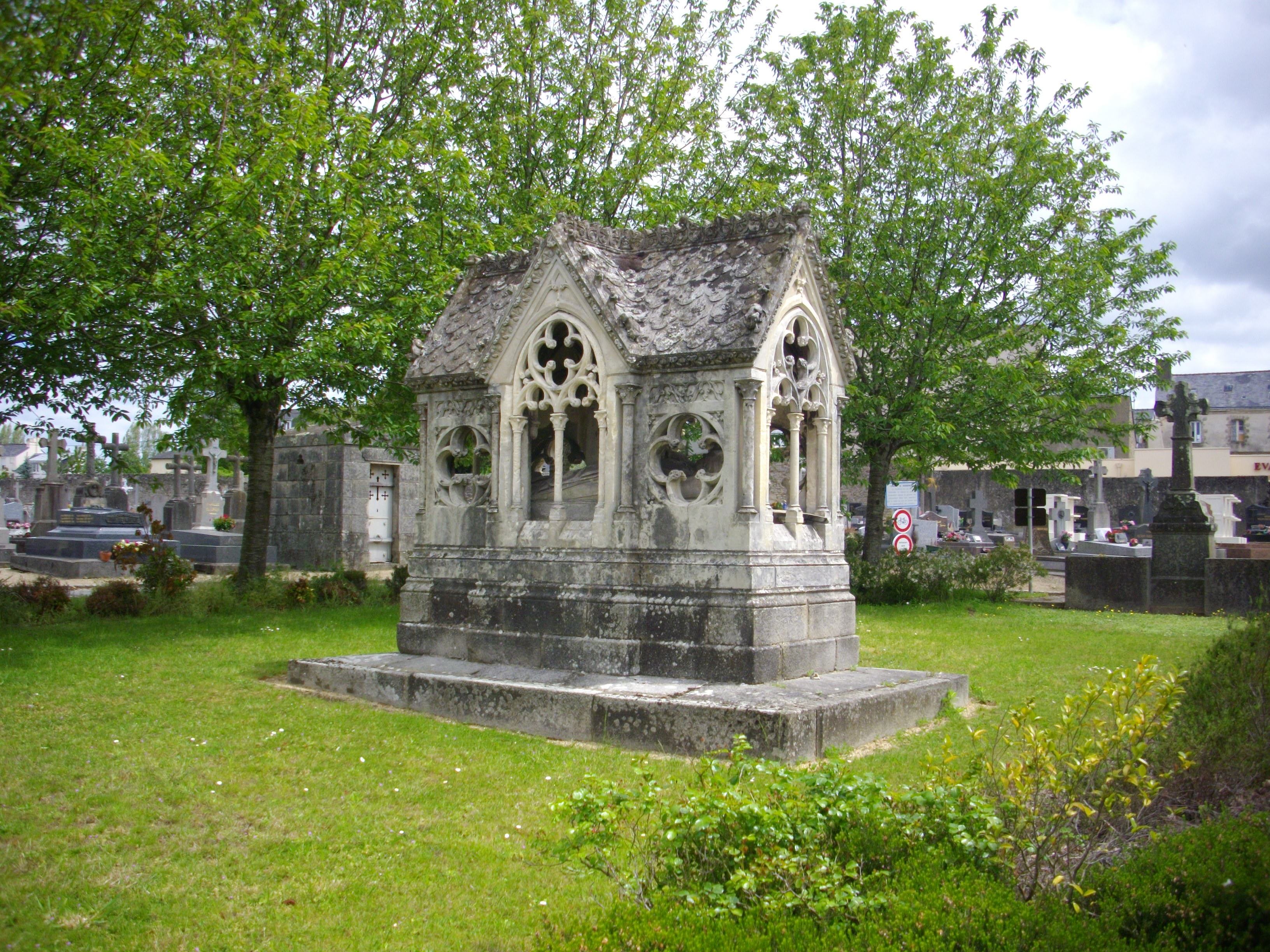 Mausoleum of Charles-Jean de La Motte de Broons et de Vauvert, in Boismoreau cemetery (Vannes, Morbihan, France)